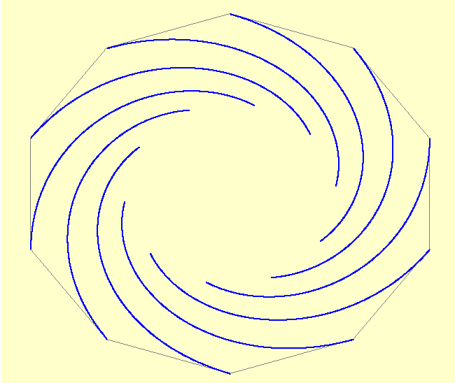 description of a pursuit curves with multiple paths.